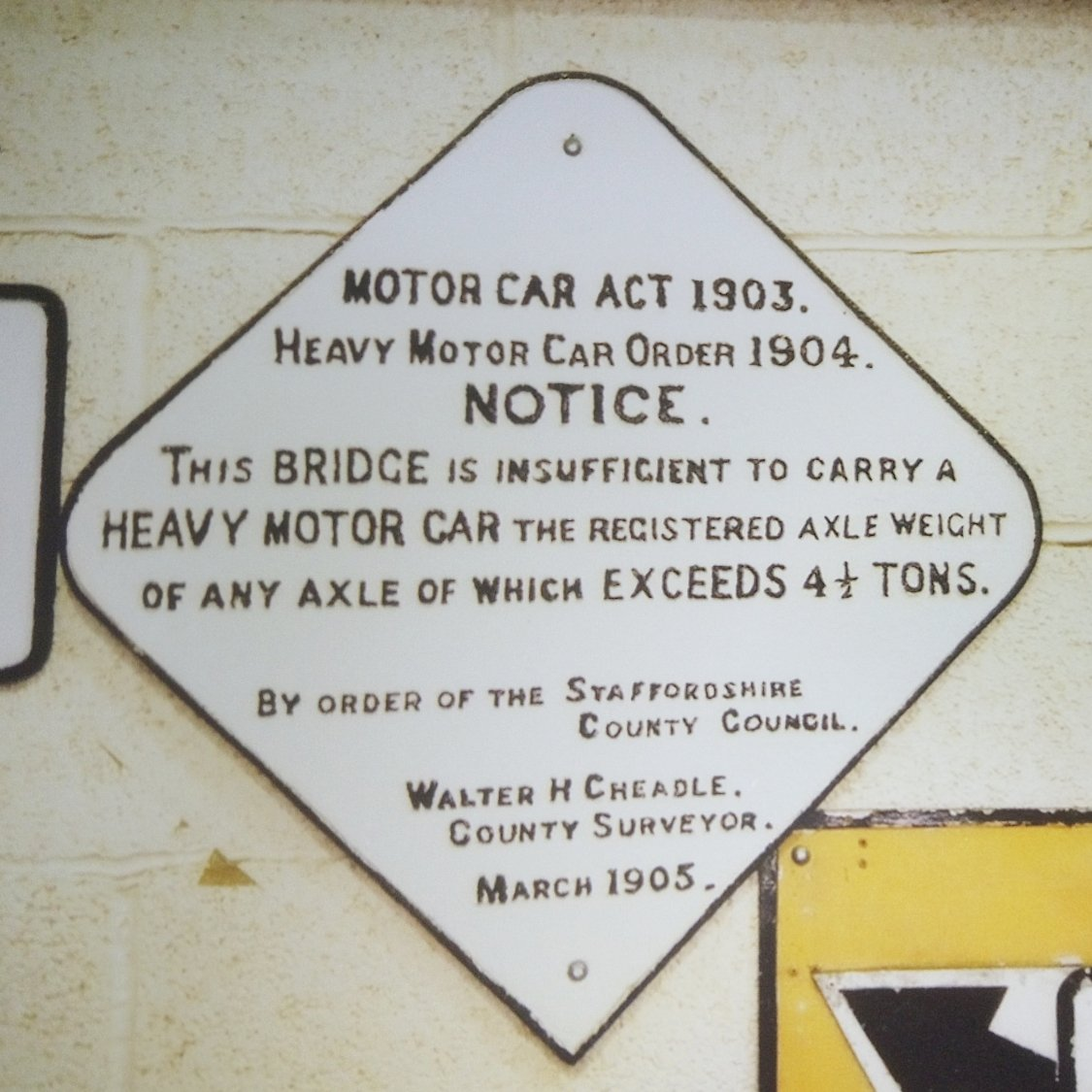 A diamond-shaped metal sign dated 1905 that was originally mounted at the entrance to the medieval Zigzag Bridge over the River Tame in Perry Barr, Birmingham. It was removed when the new bridge was built in 1931. At the time of photographing, the sign was kept at Birmingham City Council's roads depot in Aston.